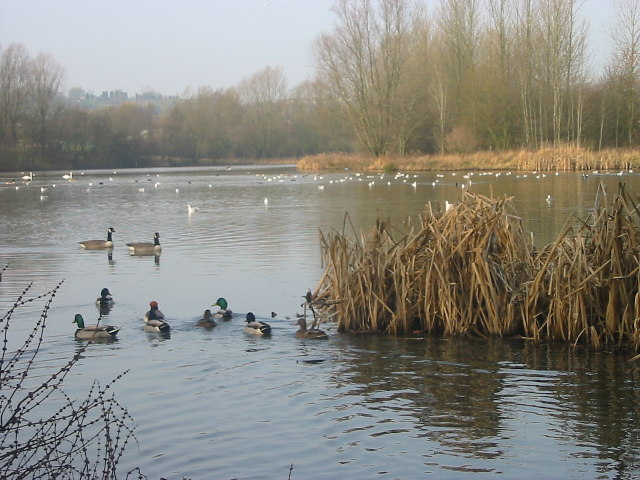 Ford Green Nature Reserve. This is a large reserve encompassing lake, swamp, reedbed, trees and grassland. There is a wide variety of plant and birdlife present. It is adjacent to Ford Green Hall SJ8850.